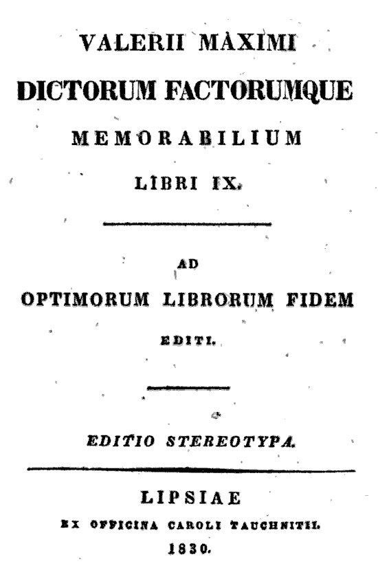 Book cover of Dictorum Factorumque Memorabilium Libri IX